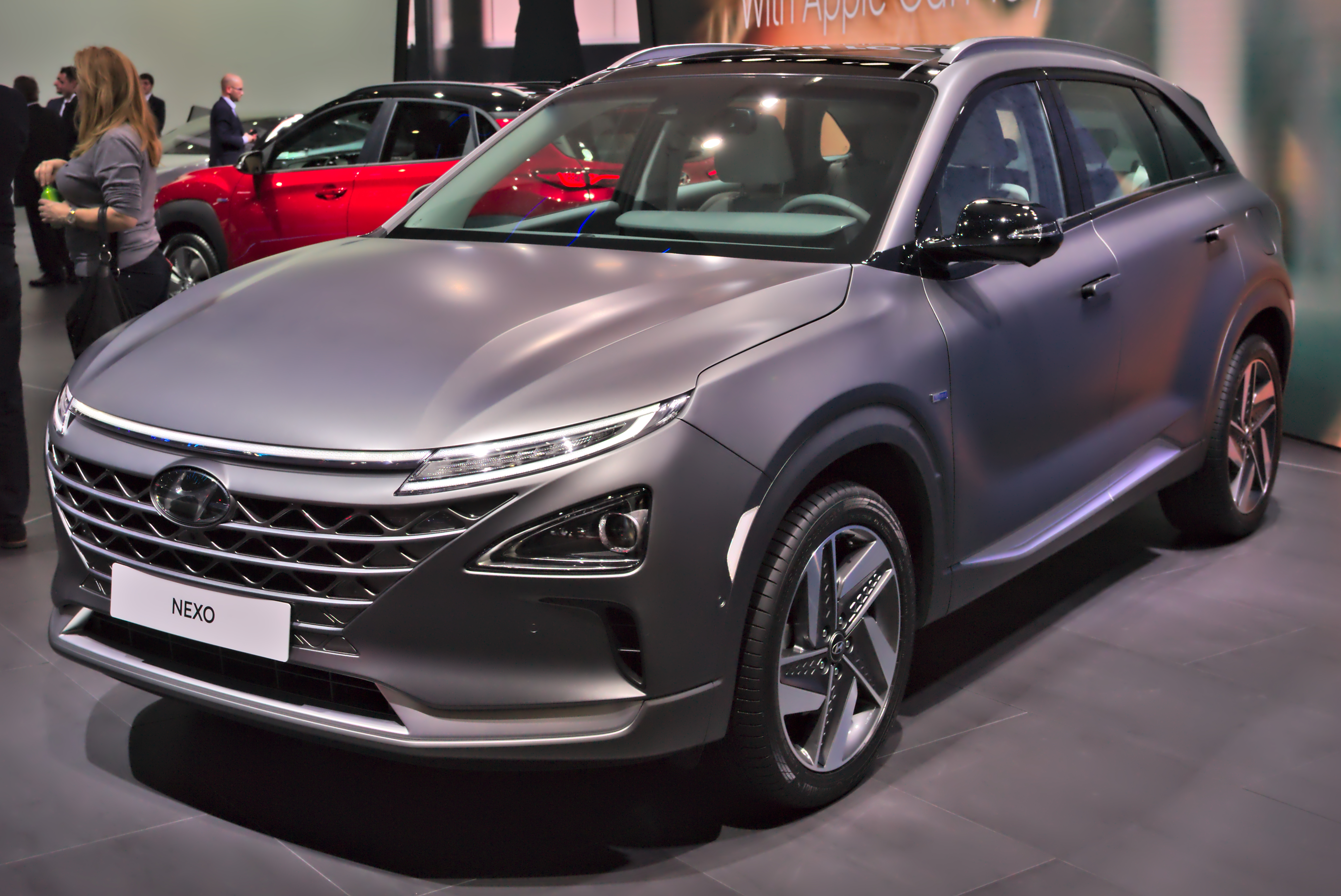 Hyundai Nexo at Geneva Motorshow 2018